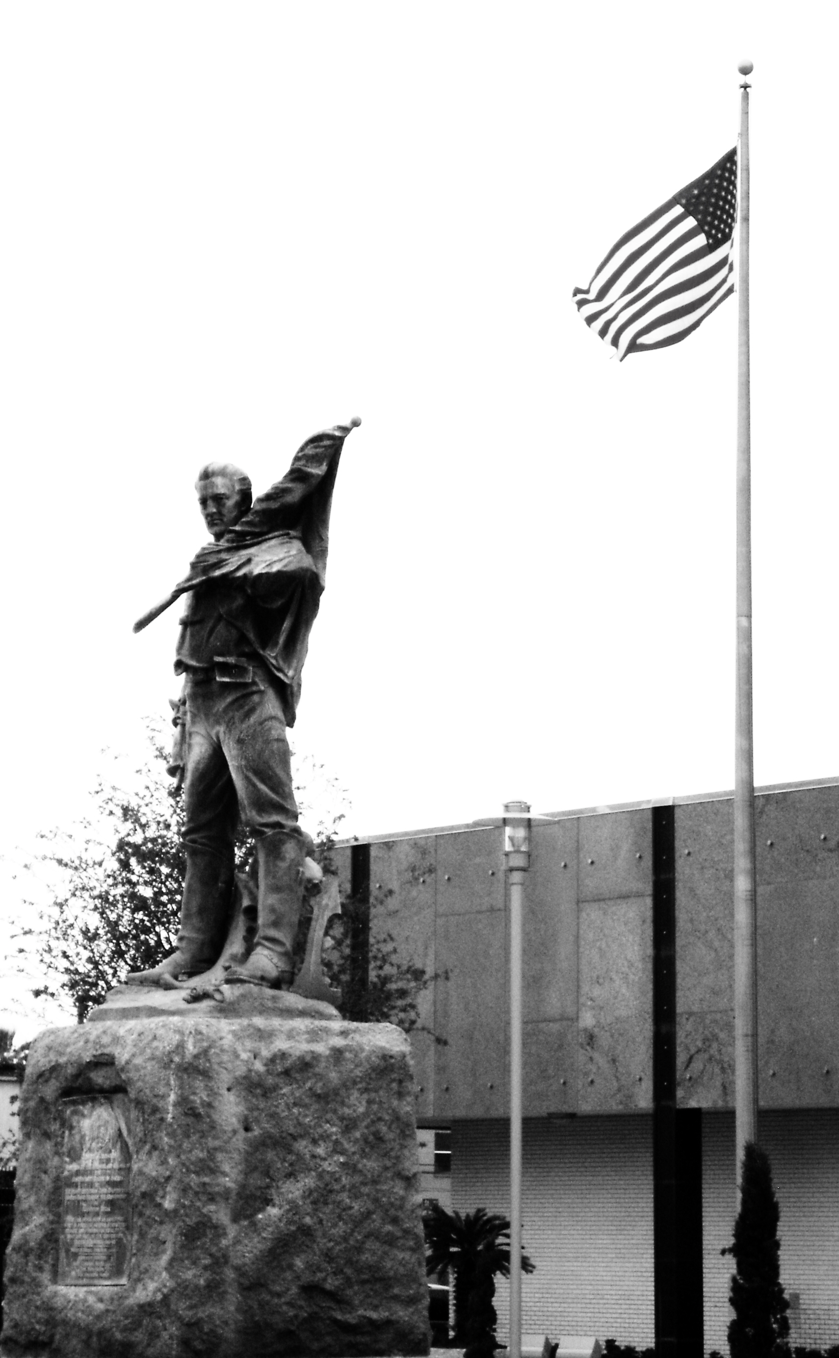 Dignified Resignation, by Louis Amateis, was erected in 1911 by the United Daughters of the Confederacy at the Galveston County Courthouse in Galveston, Texas.